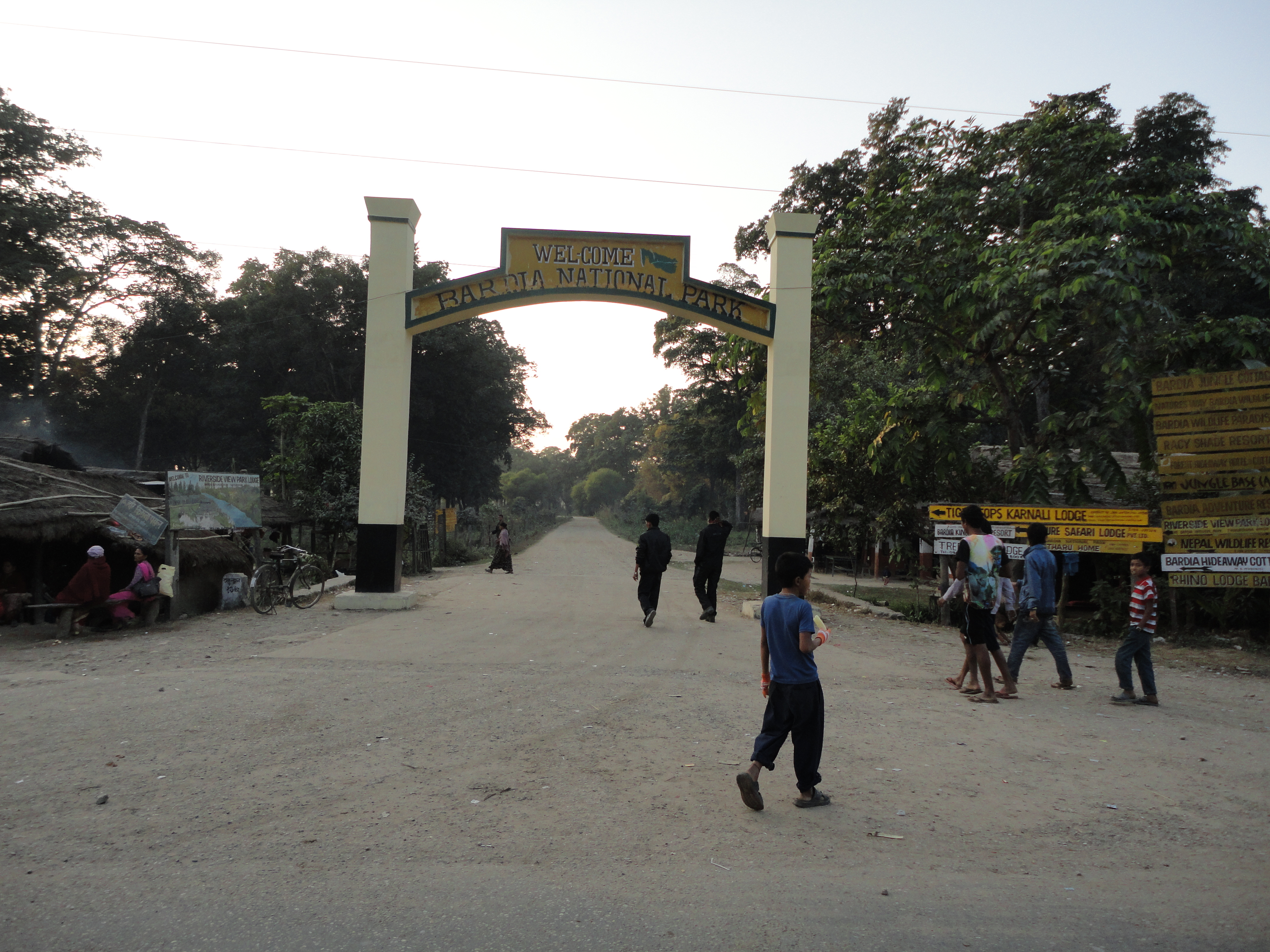 The gate of Bardiya National Park in western Nepal